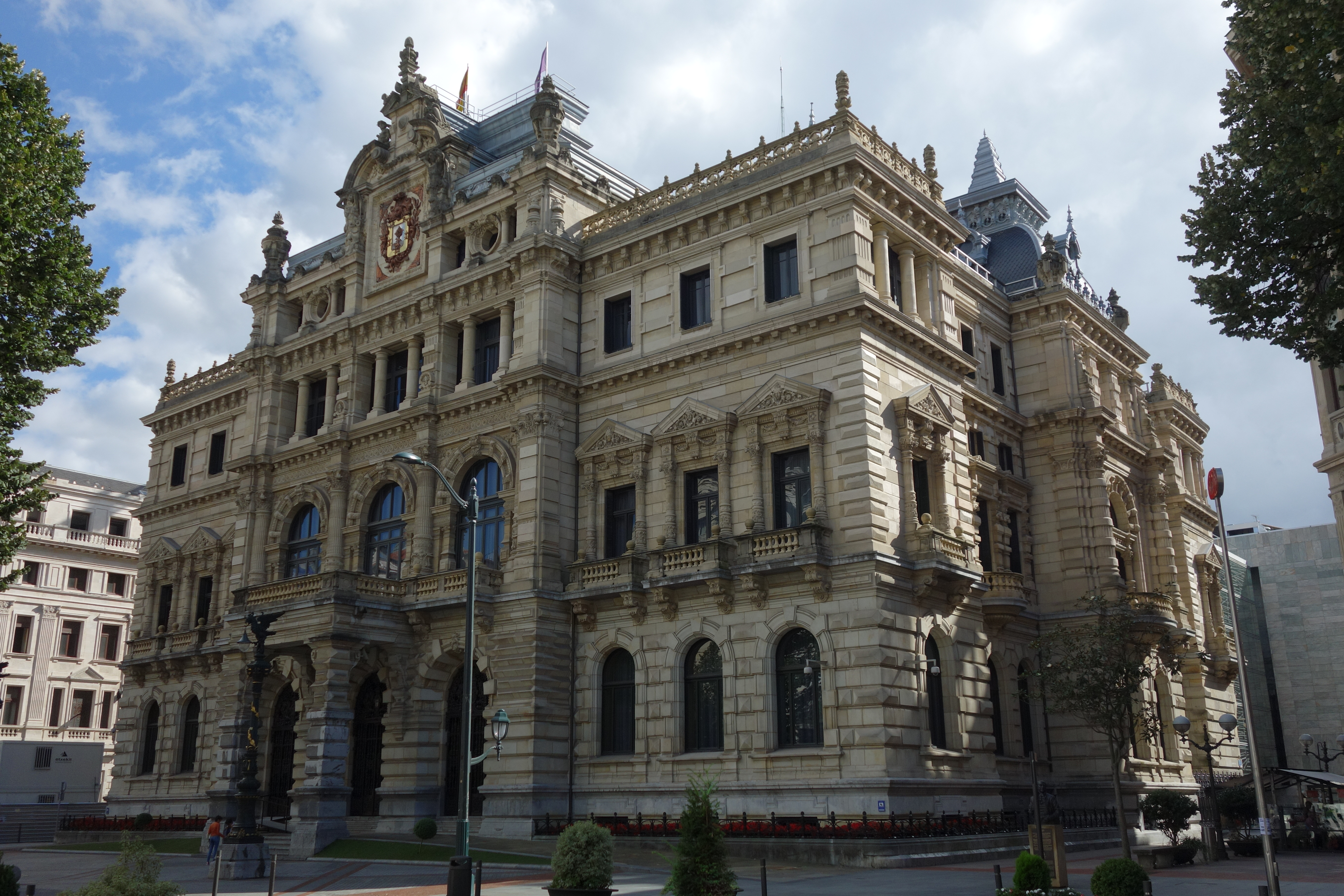 The palace of the Biscay Foral Council in Bilbao.